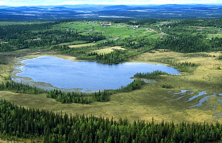 The vilage Risträsk and the lake Hemtjärnen in Vilhelmina municipality, Västerbotten county, Sweden